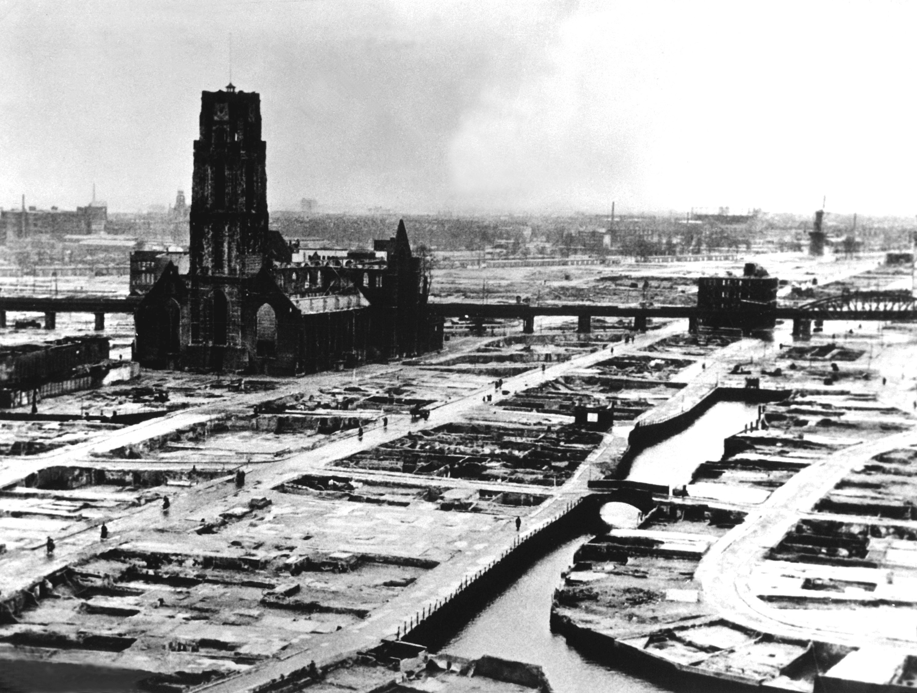 "The German ultimatum ordering the Dutch commander of Rotterdam to cease fire was delivered to him at 10:30h on 14 May 1940. At 13:22h, German bombers set the whole inner city of Rotterdam ablaze, killing 814 of its inhabitants." The photo was taken after the removal of all debris.